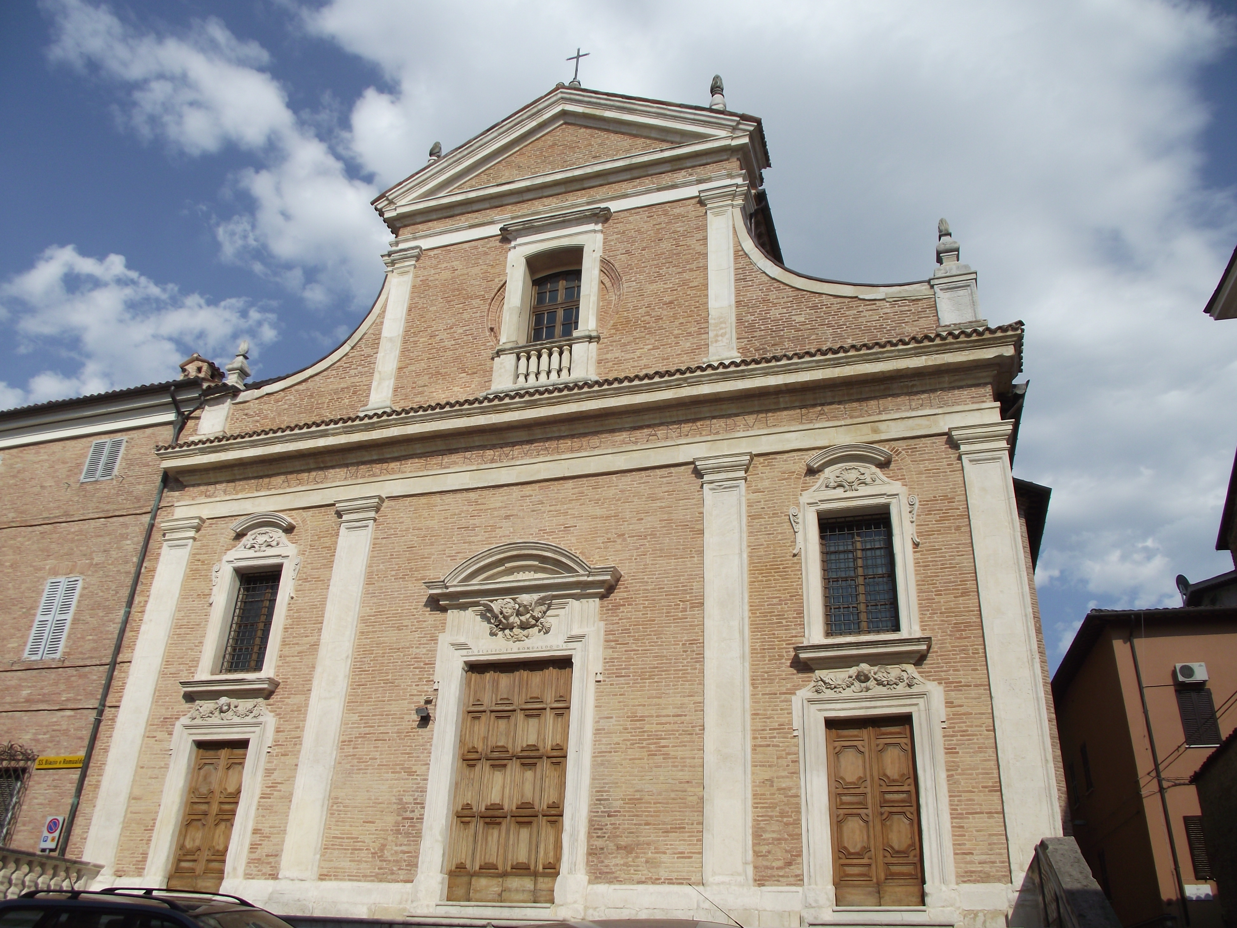 St. Blaise and Romuald Church, XV-XVIII Century, Fabriano - Italy